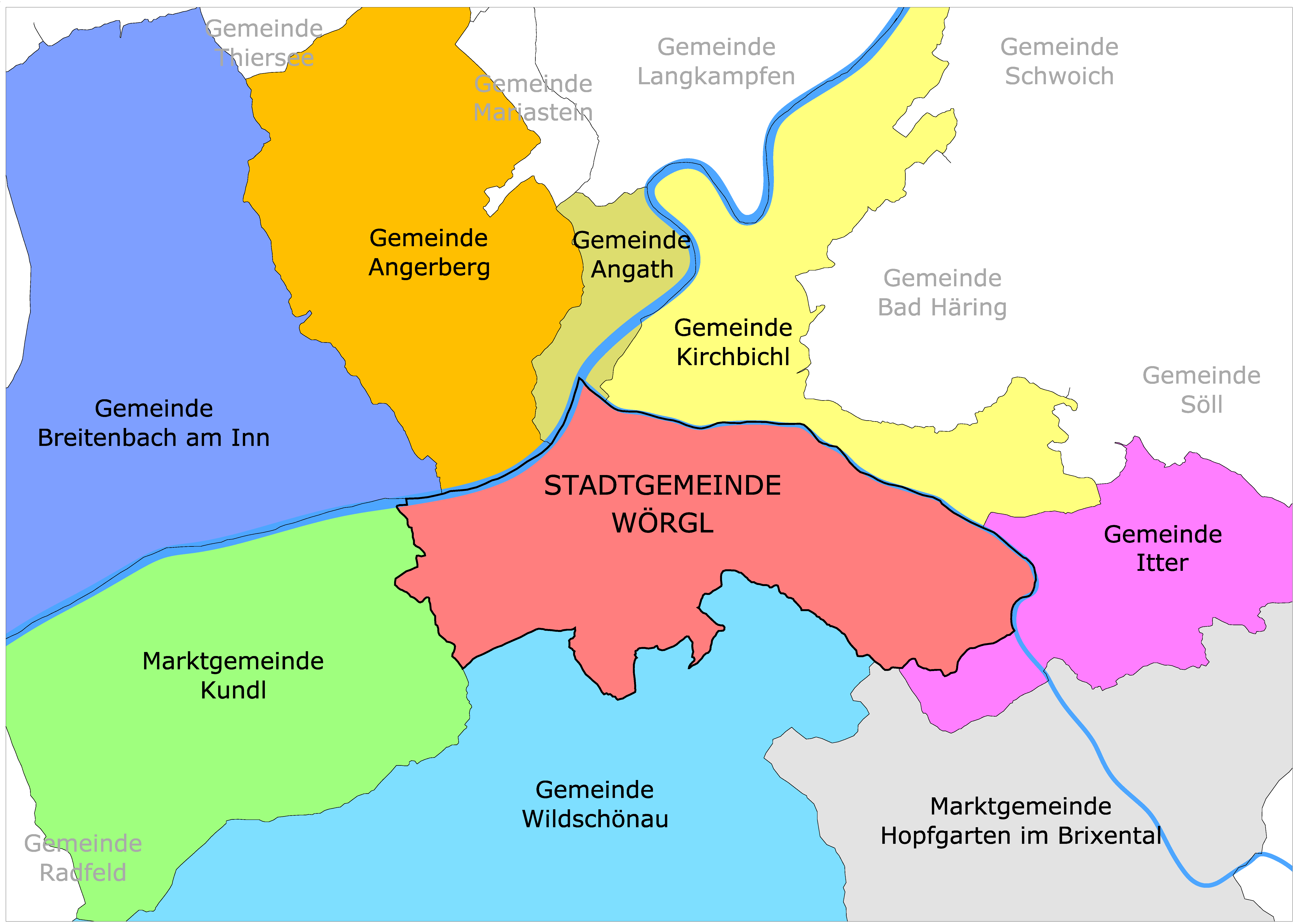 Map of the neighbouring communes of Wörgl in Tyrol (Austria).